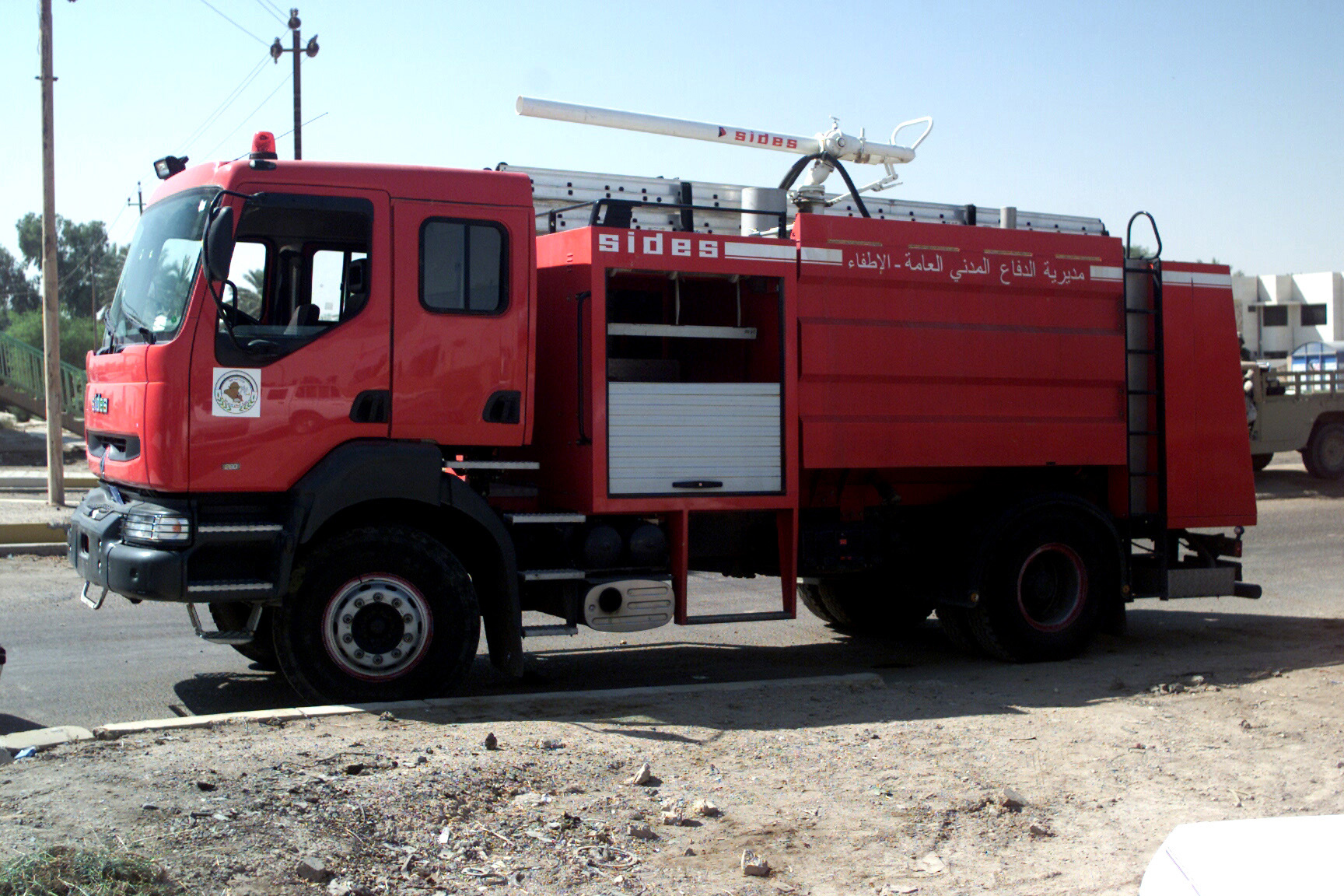 On August 27, 2003 A brand new fire truck sits outside its new home a fire station in the Al Bayaa district of Baghdad. This is the first fire station of many to be fully updated with new equipment and a newly referbished building.